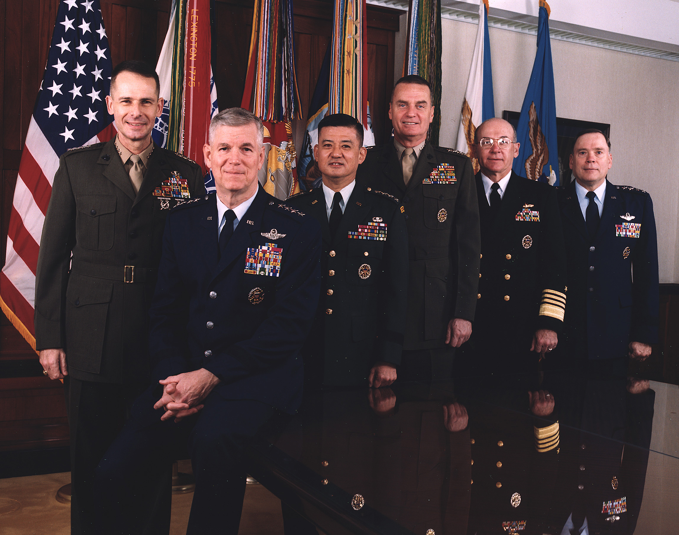 The Joint Chiefs of Staff photographed in the Joint Chiefs of Staff Gold Room, more commonly known as The Tank, in the Pentagon on December 14, 2001. From left to right are: Vice Chairman of the Joint Chiefs of Staff Gen. Peter Pace, U.S. Marine Corps, Chairman of the Joint Chiefs of Staff Gen. Richard B. Myers, U.S. Air Force, U.S. Army Chief of Staff Gen. Eric K. Shinseki, U.S. Marine Corps Commandant Gen. James L. Jones Jr., U.S. Navy Chief of Naval Operations Adm. Vern E. Clark, U.S. Air Force Chief of Staff Gen. John P. Jumper.